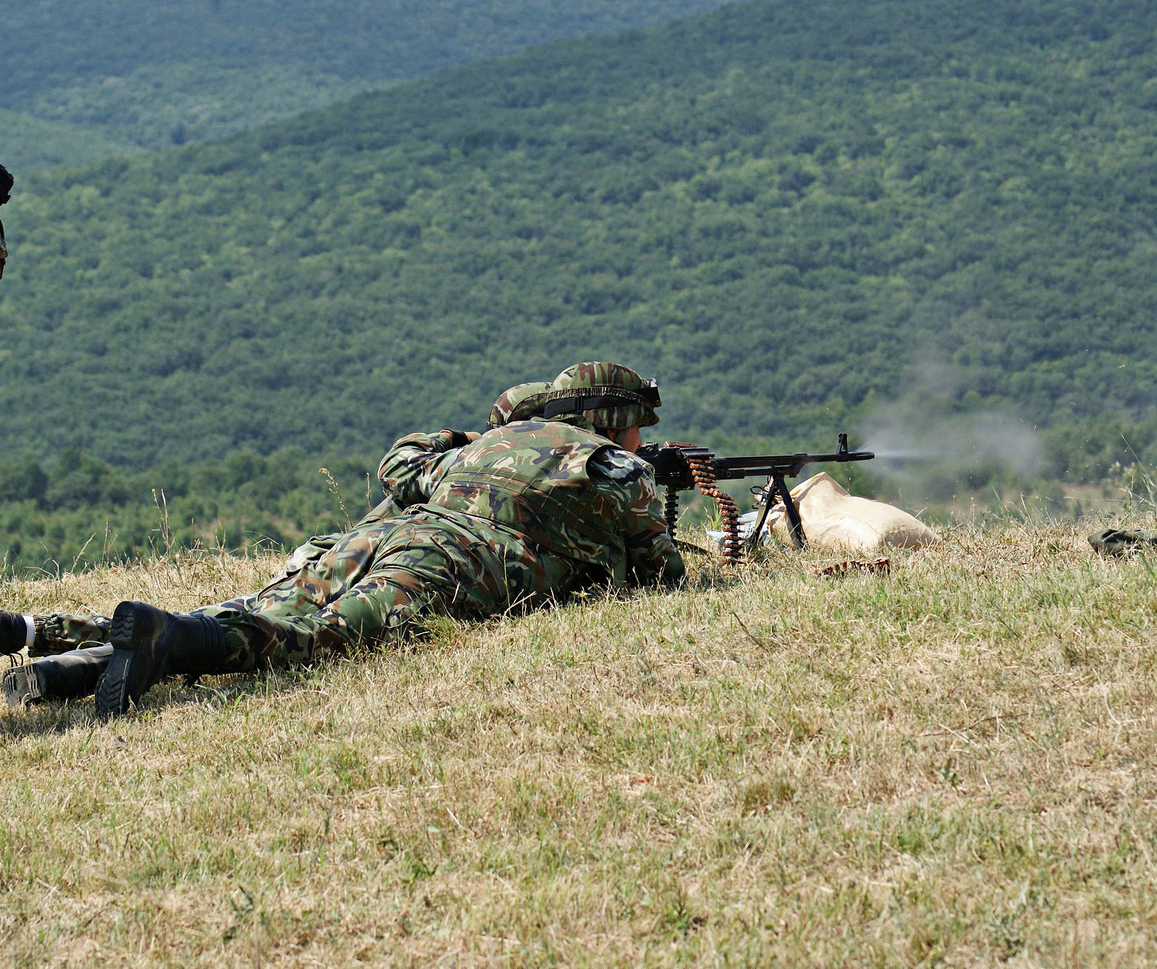 BSRF-13